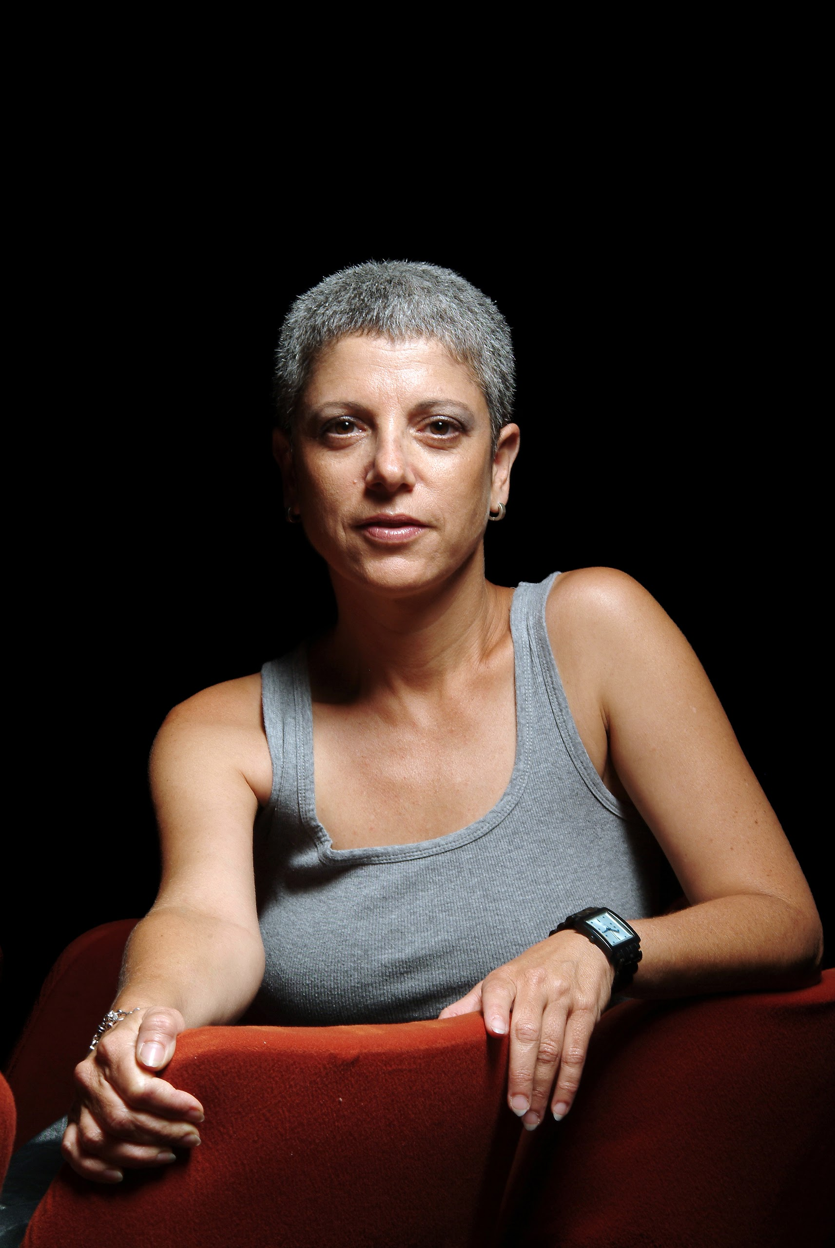 Rivi Feldmesser-Yaron